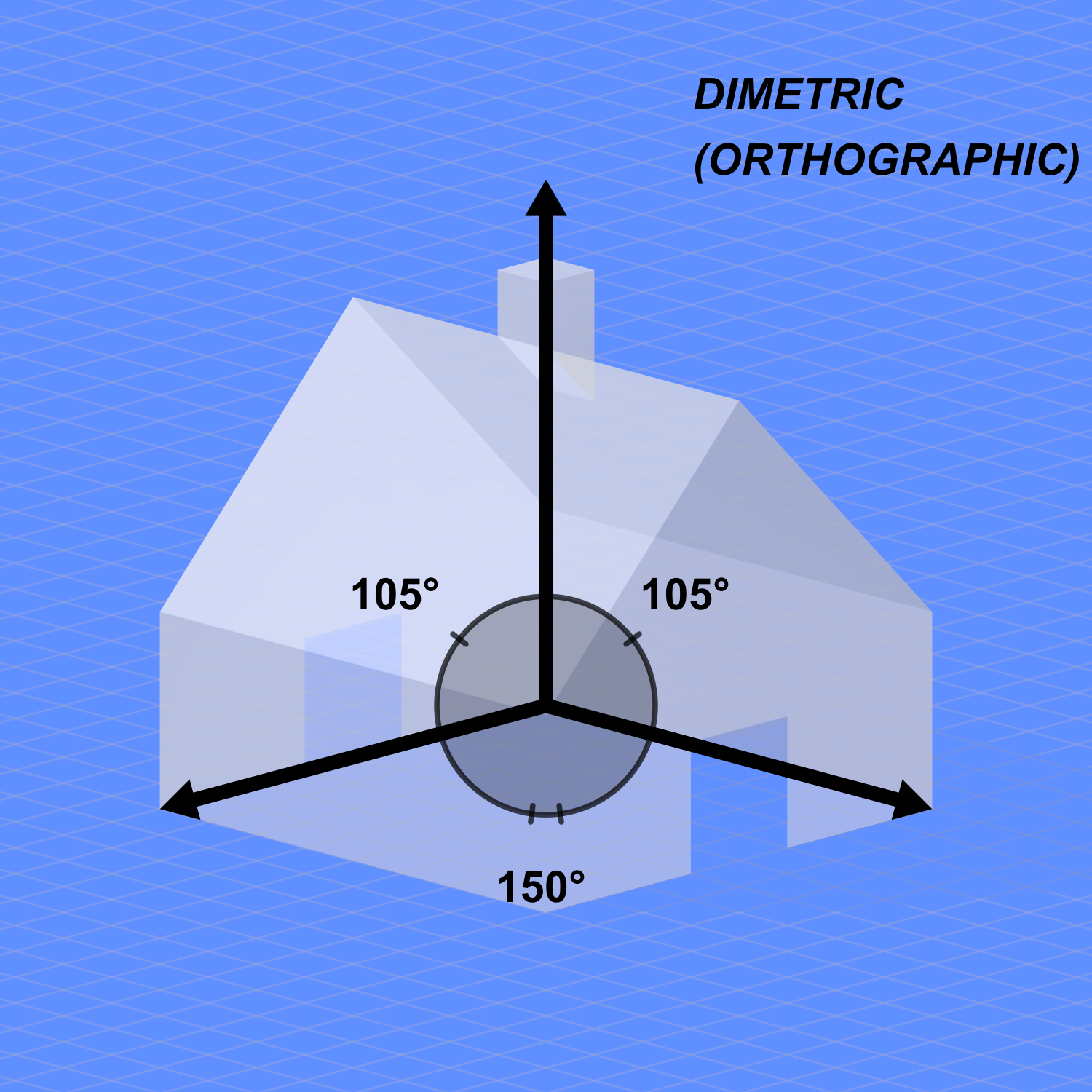 Dimetric 1:1 or 27° projection, 116.57° = 180° + arctan(-2), 126.87° = 2×arctan(2)